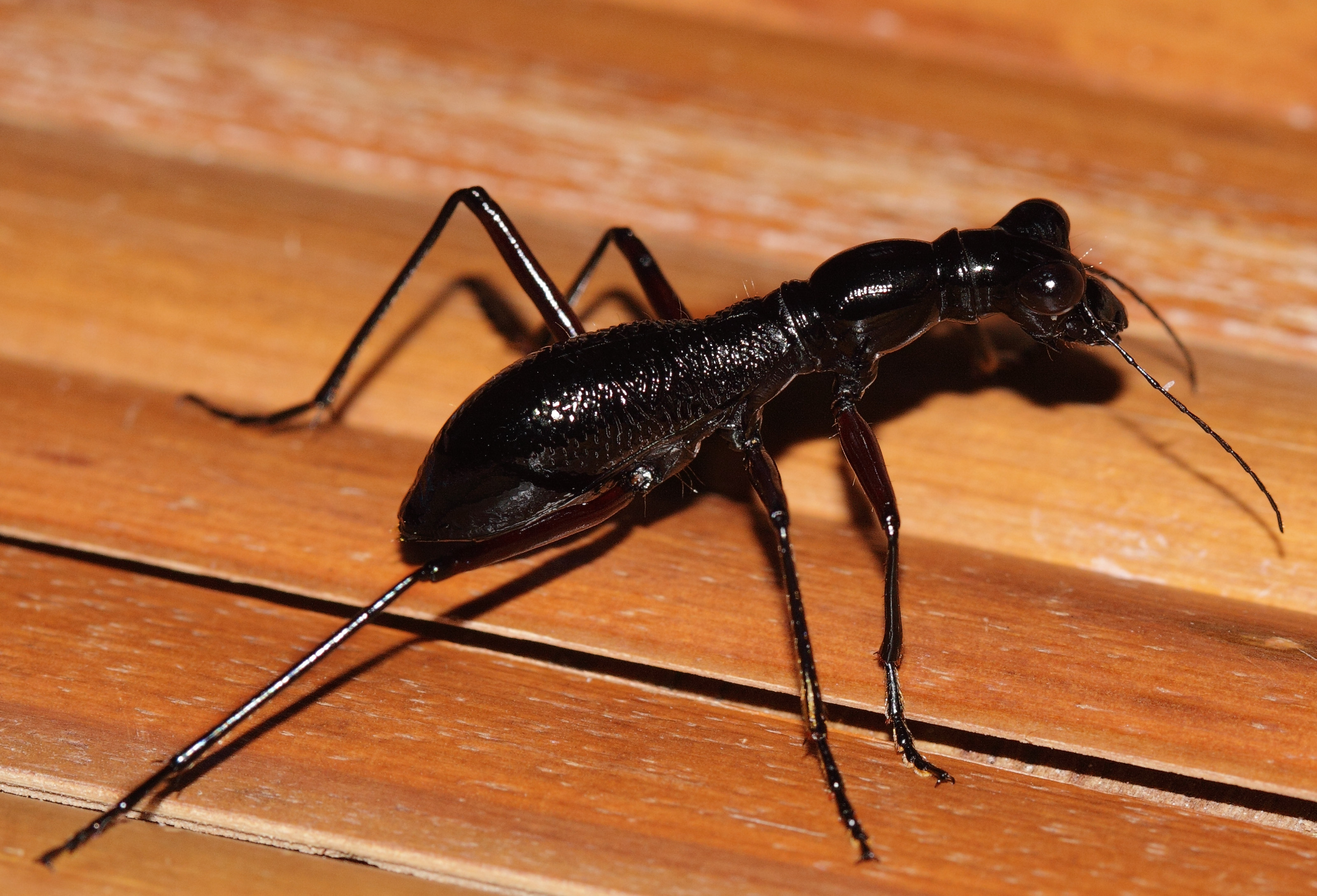 Tricondyla aptera at Kri Island, Raja Ampat, West Papua